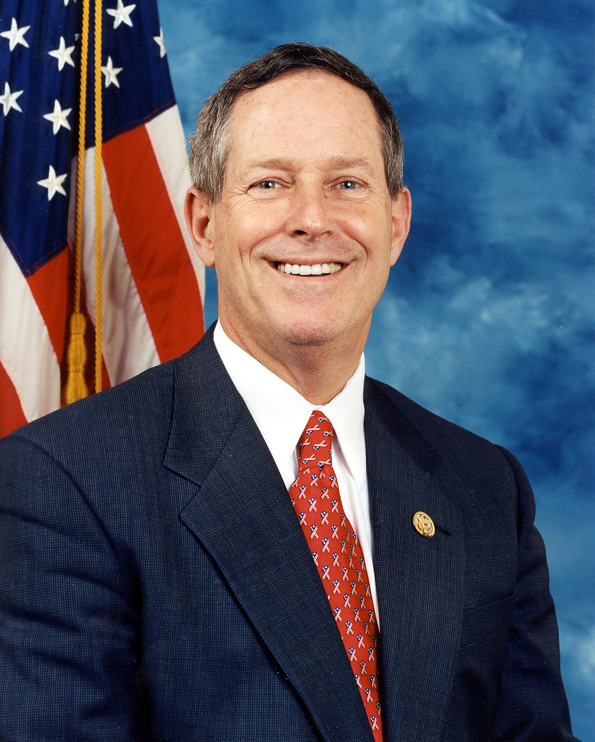 Joe Wilson (U.S. politician), U.S. Congressman.